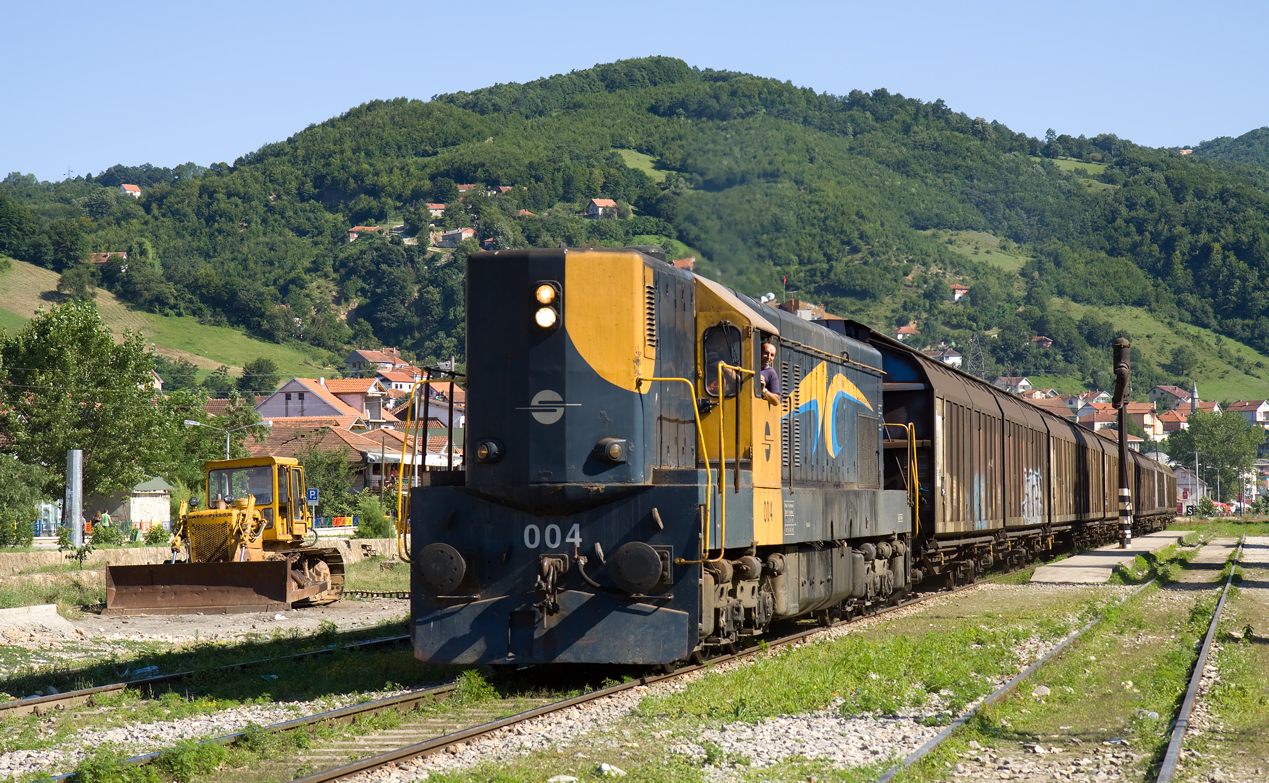 Former JZ class 661, now Kosovo Railways 004, with a freight train to Hani i Elezit (border station to Macedonia)